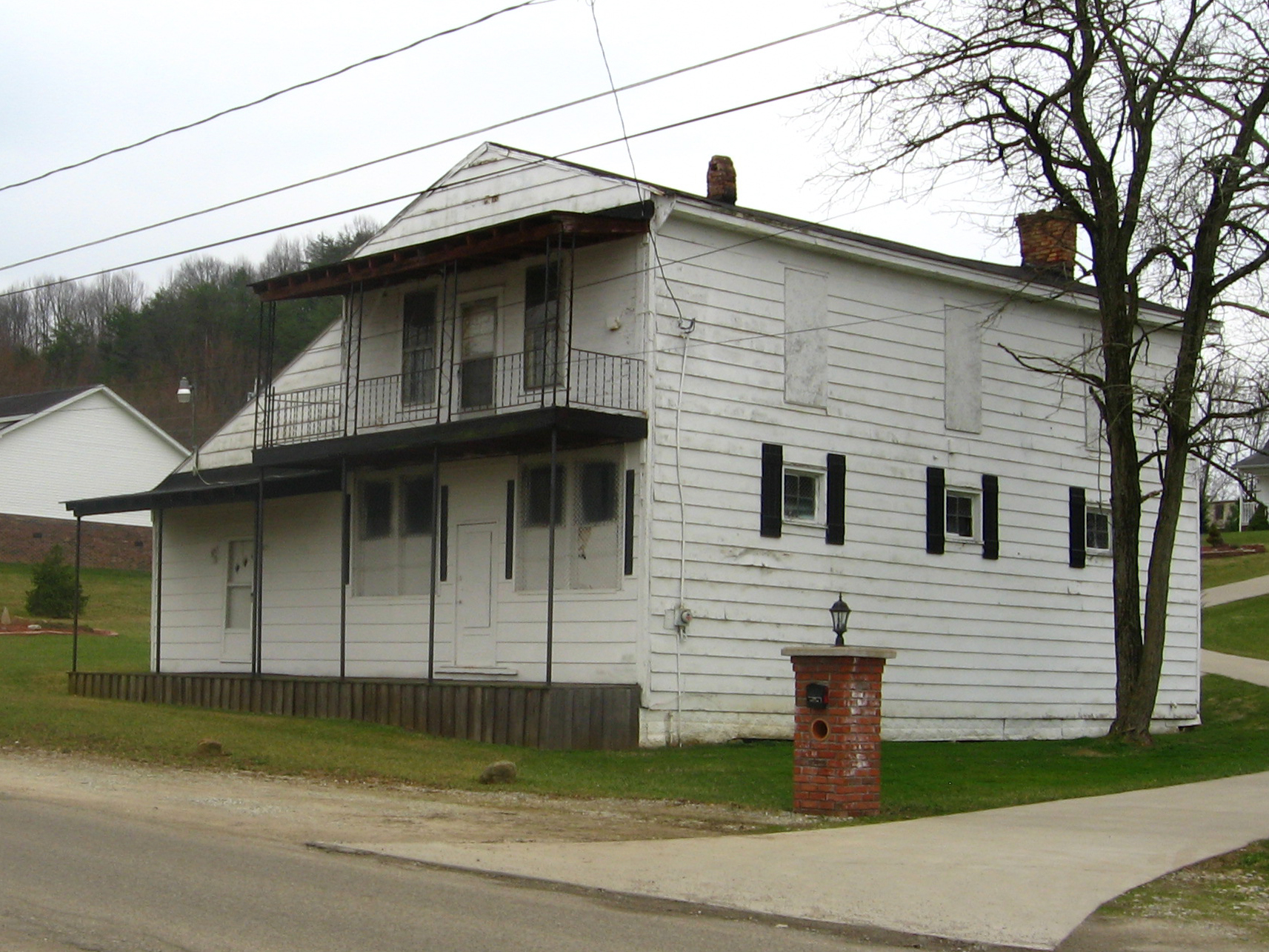 Photo of the former rail road depot in Teays, Putnam County, West Virginia. Later it was turned into a store followed by a Post Office.